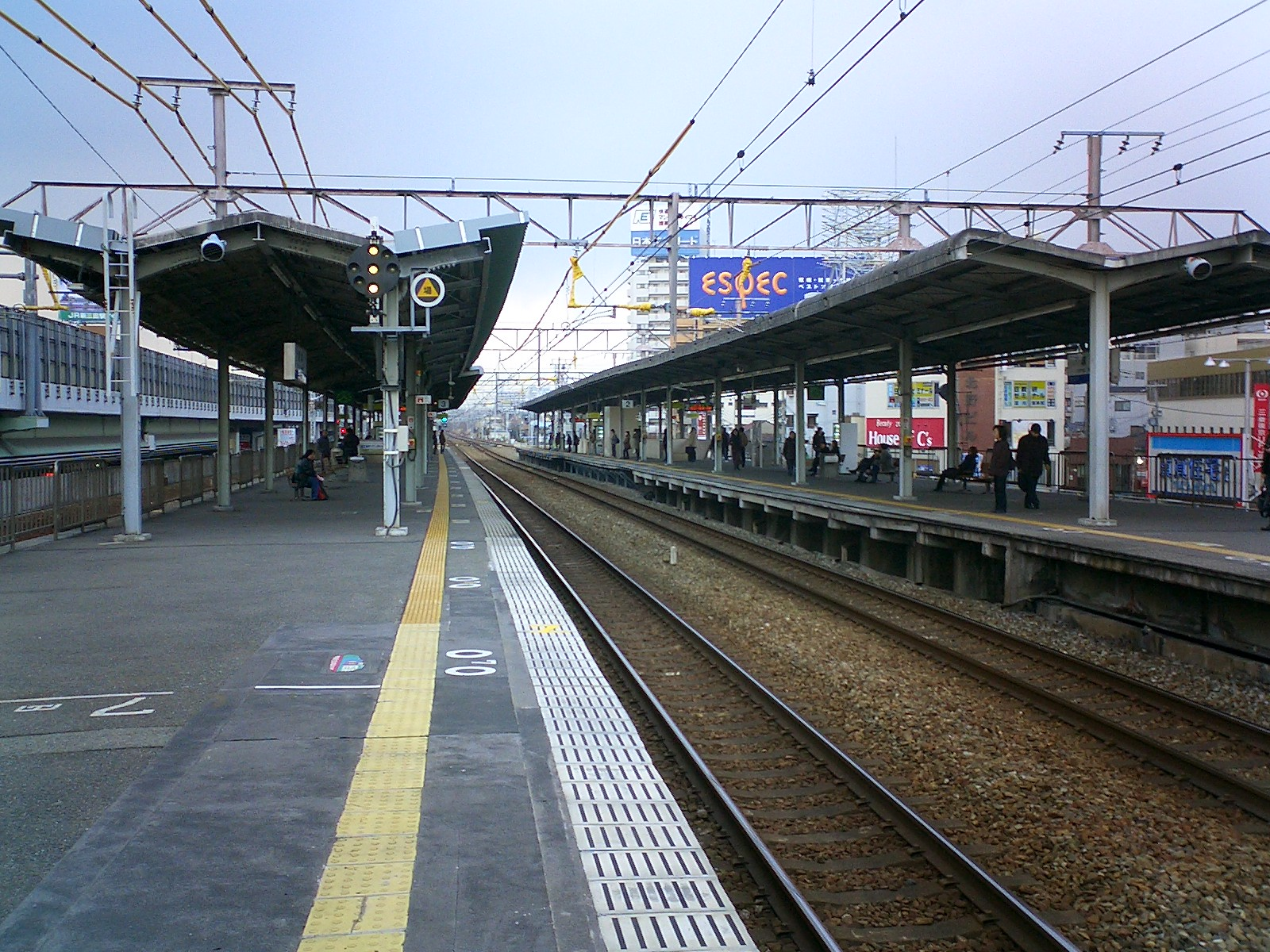 West Japan Railway Tōkaidō Main Line（JR Kōbe Line） Tsukamoto Station Platform